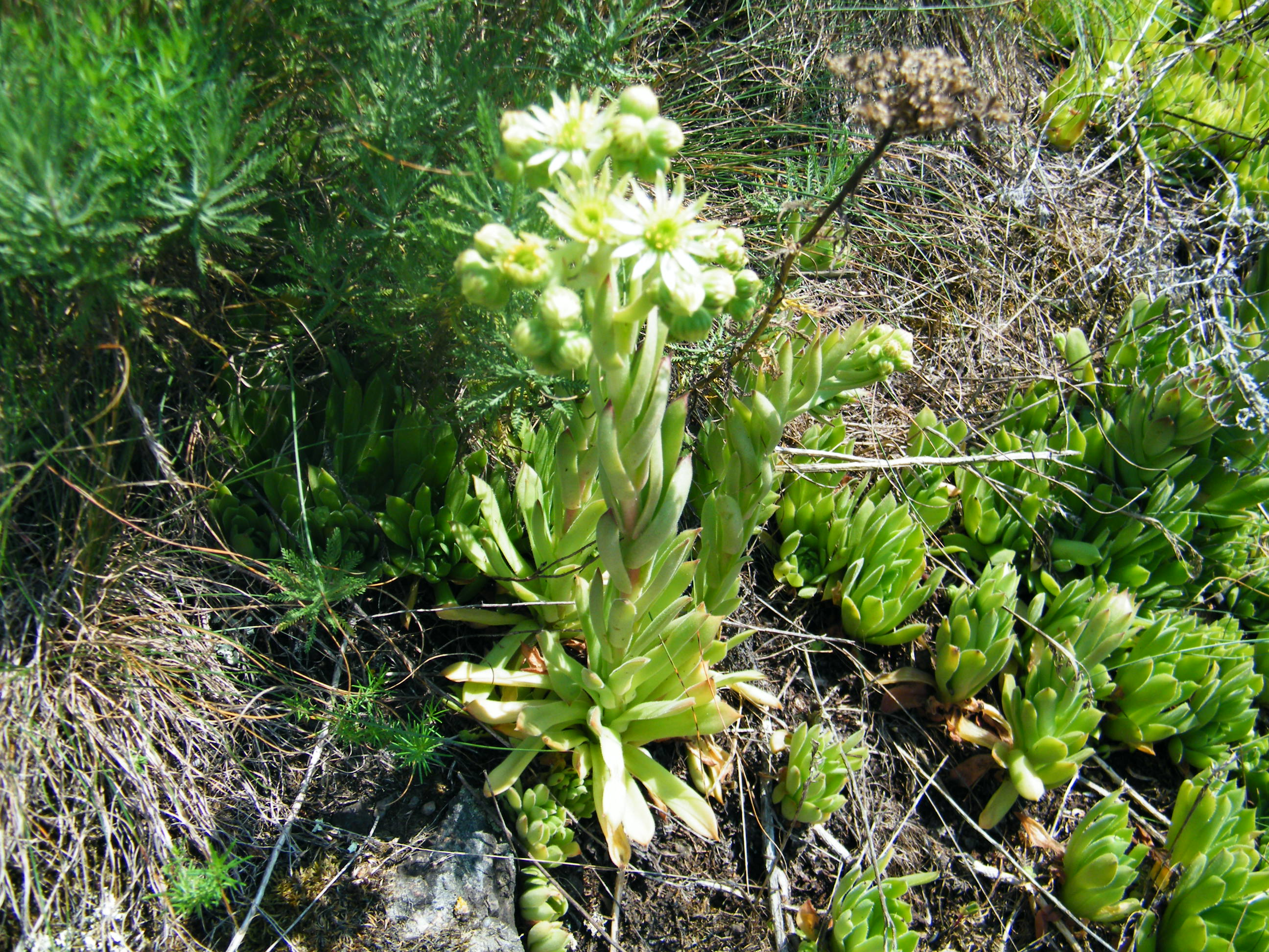 Sempervivum ruthenicum in Buzkiy Gard